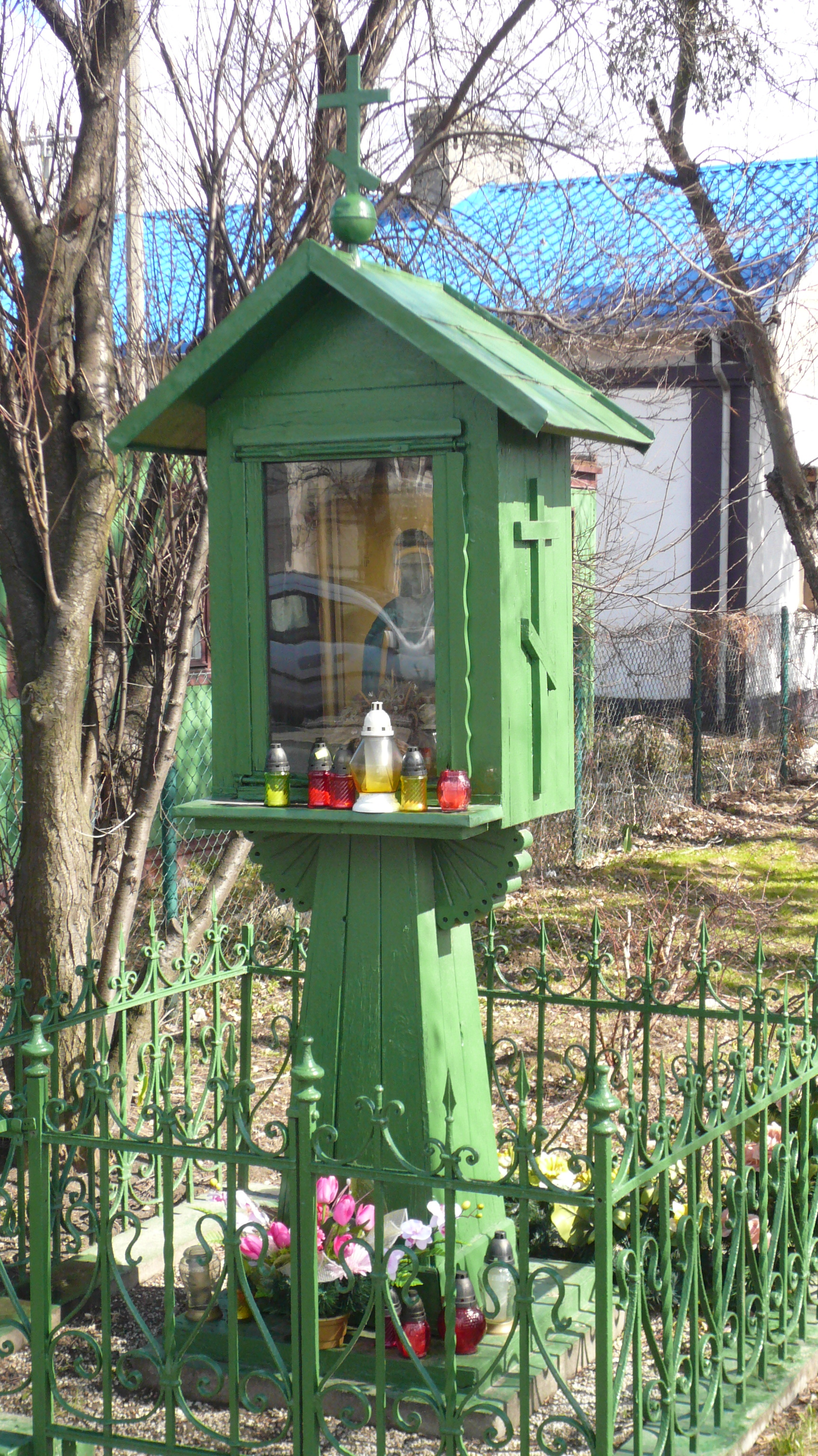 The Orthodox or Greek Catholic roadside shrine in Bronisze